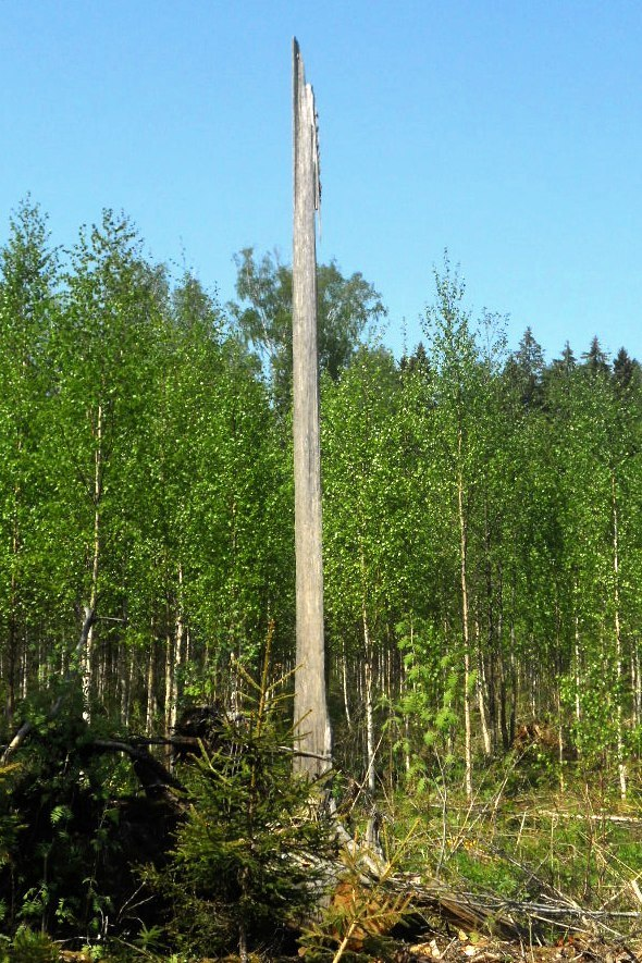 Barber’s chair, sloven on stump